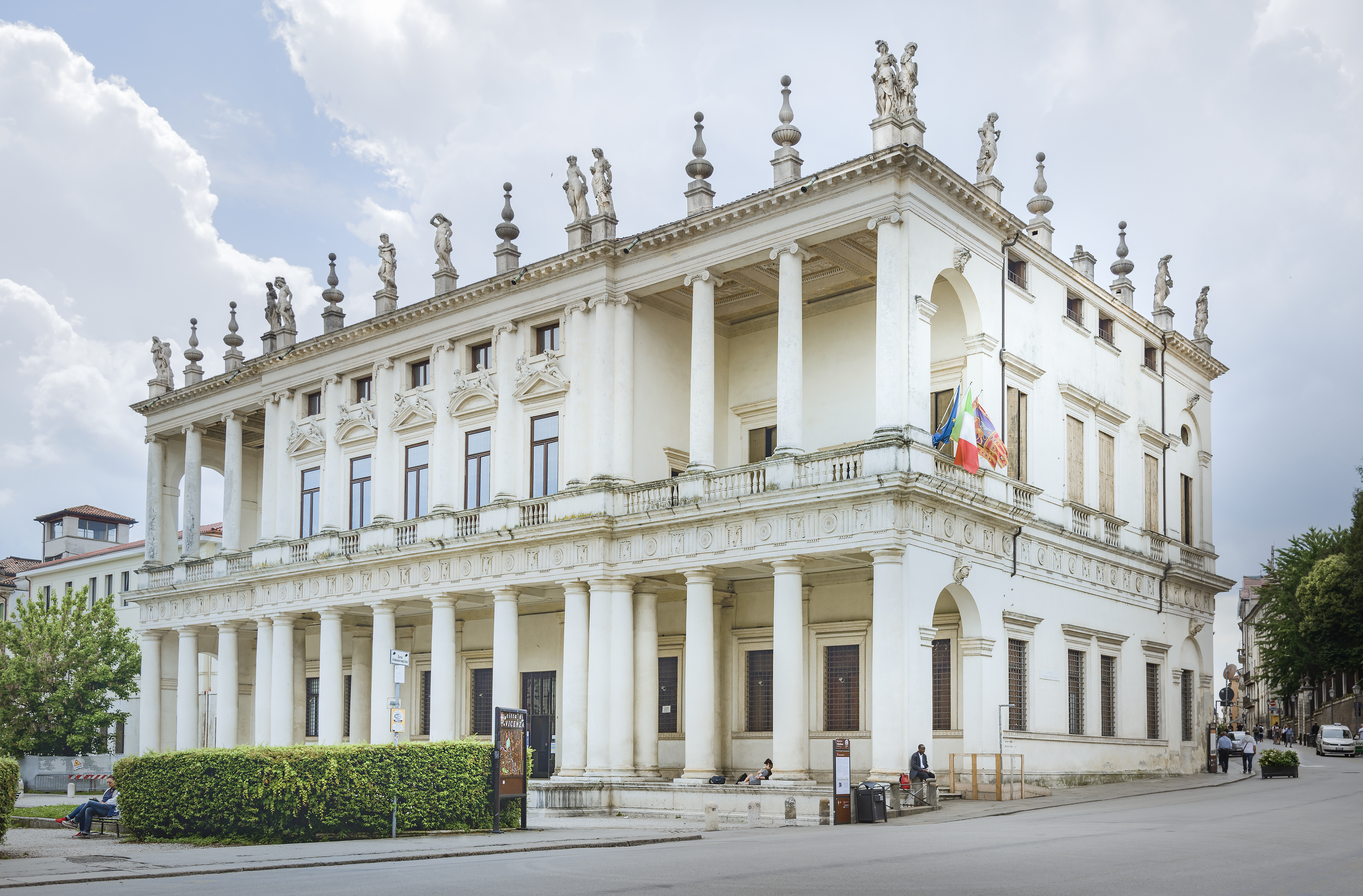 Palazzo Chiericati is a Renaissance palace in Vicenza (northern Italy), designed by Andrea Palladio. Houses the civic gallery, which includes collections of prints, drawings, numismatics, medieval and modern statues.